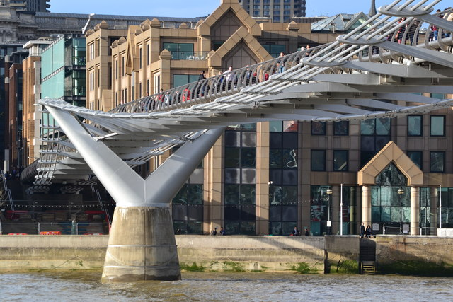 Under the Millennium Bridge